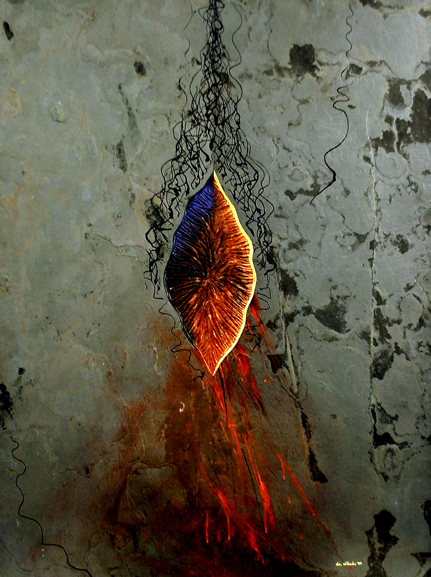 Titled “Menstrual Period in Political History”, this controversial mixed media artwork in 2005 by Filipino multimedia artist Danny C. Sillada, is a political satire on the cyclical political crisis and corruption in the Philippine government. The vaginal form is carved on a metamorphic rock and painted with red, blue and yellow to signify the Philippine flag. The size is 60 × 48". "This controversial mixed media piece (an attempt was made to destroy it at the height of the “Hello Garci” political scandal) reflects the artist’s critical stance toward the power struggles that “are putting our country into pit.”" (Ong, Village Voice, pp.12) "Blue, red, and yellow – the colors of the Philippine flag – fill his canvasses. He alludes a woman’s menstrual period to the country’s cyclic political turmoil, and he sprinkles it with satirical images to boot." (Excerpted from The Manila Times, June 27, 2006)